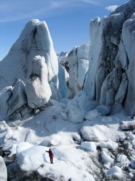 Kenai